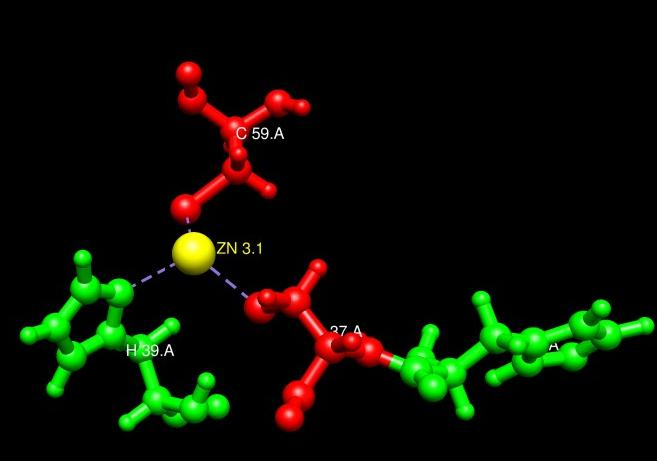 This picture shows the zing finger domain of 2ct2 which is homologous to the zinc finger domain of RMND5B